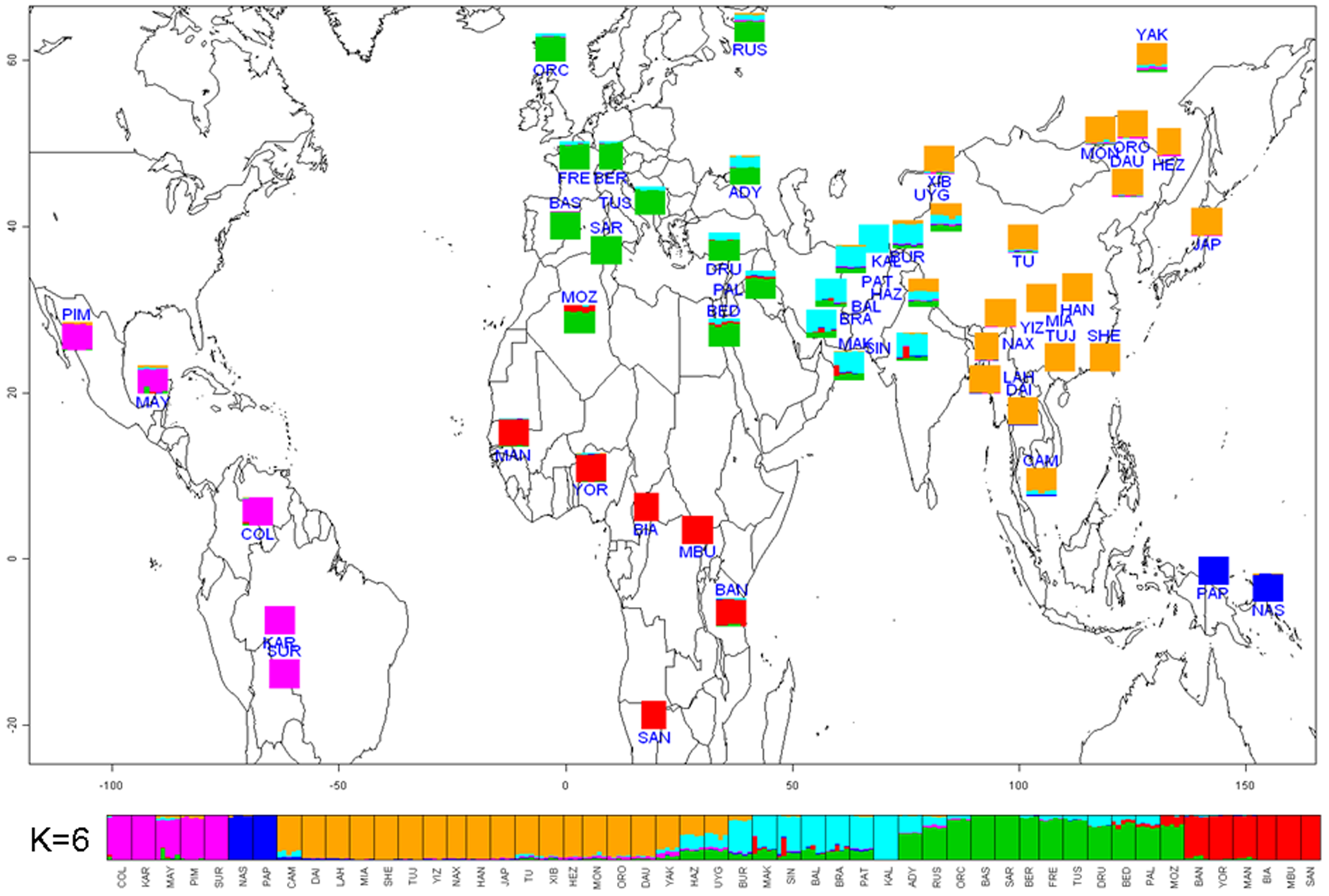 Genetic ancestry clustering analysis of worldwide human populations by software frappe at K = 6. This analysis is based on 954,063 SNPs genotyped in the 250 individuals among 51 worldwide populations from the Human Genome Diversity Panel (HGDP-CEPH). For population IDs, see Table S1.